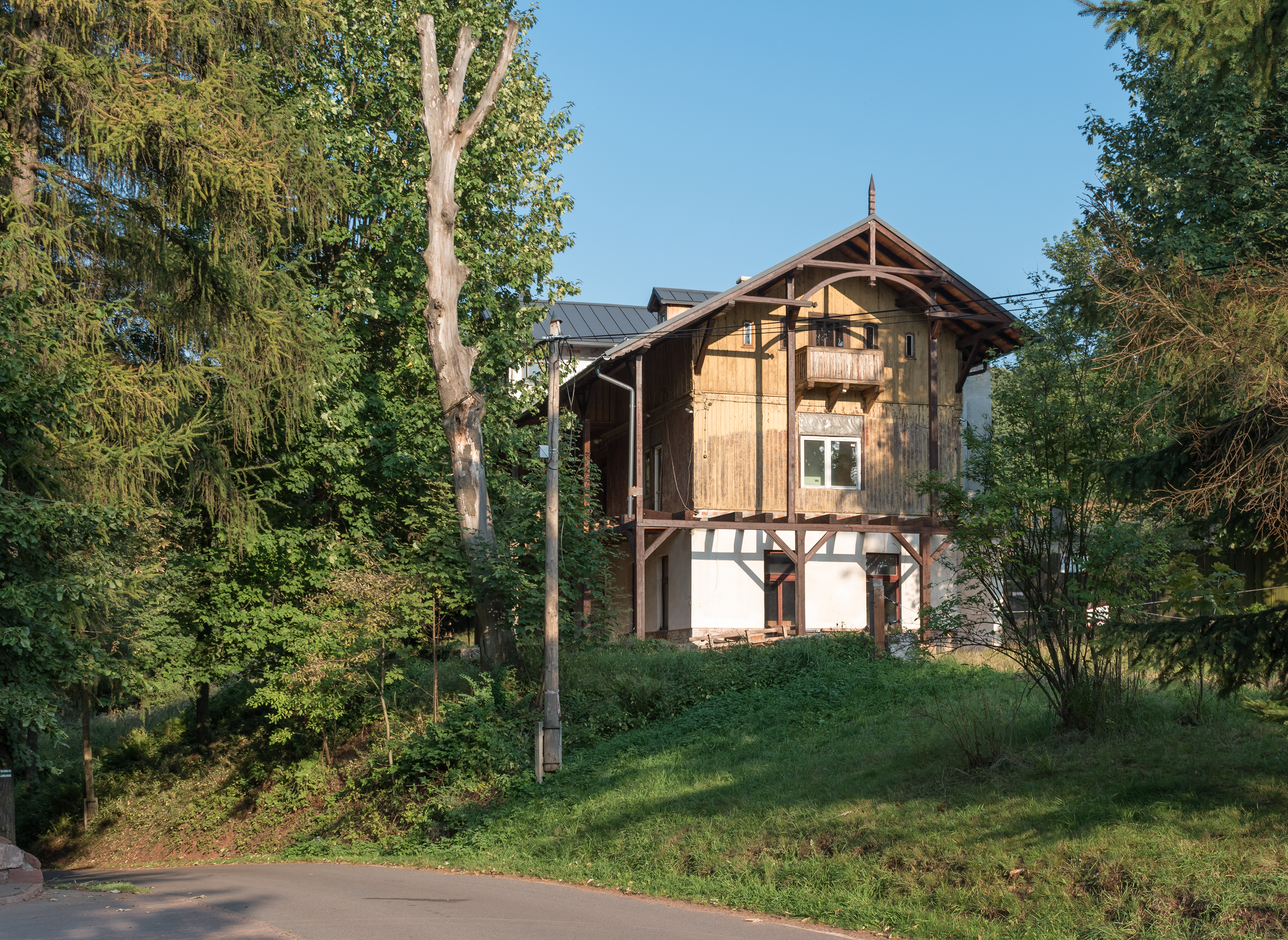 Hostel on Saint Anne Mountain